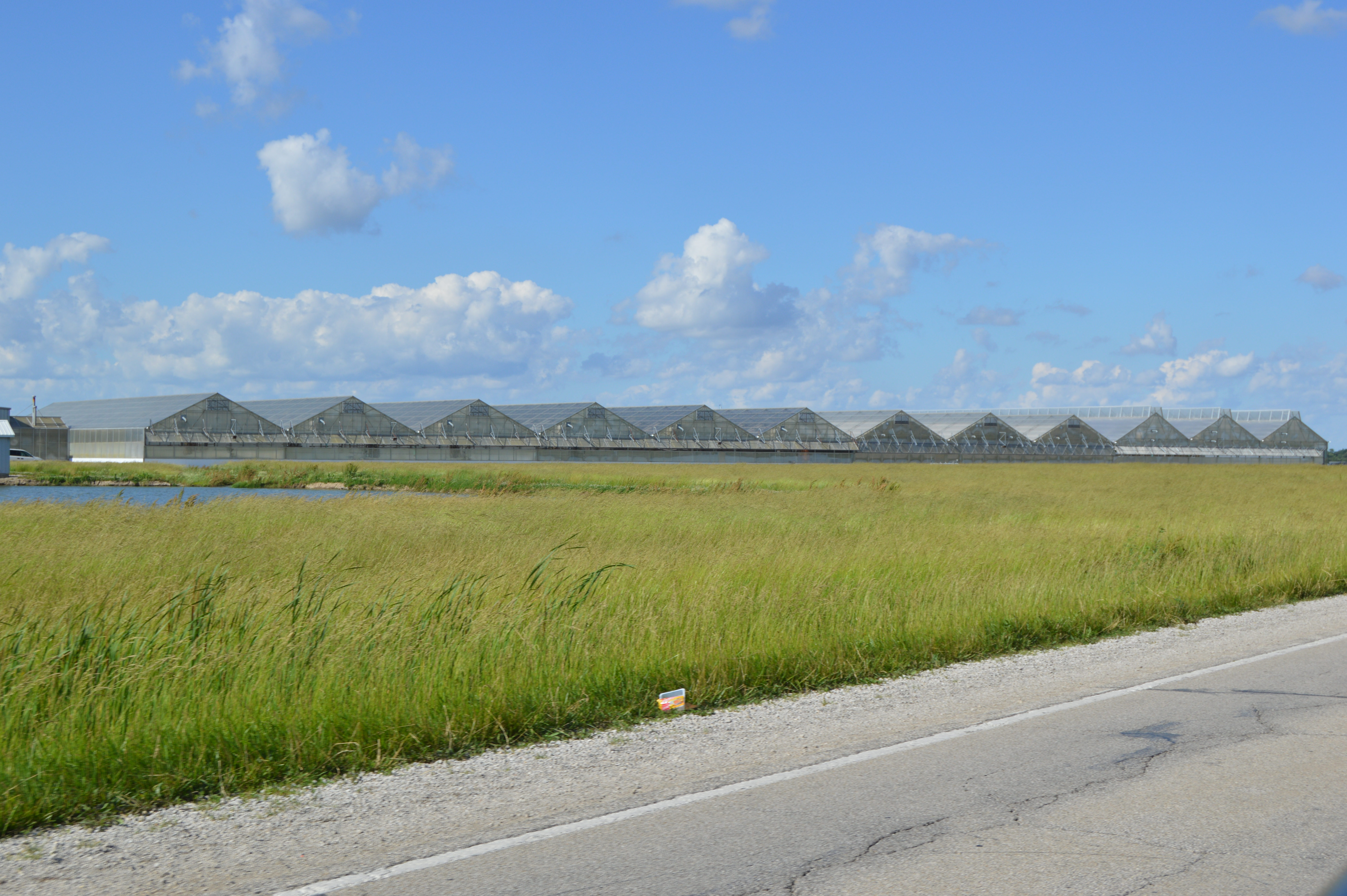 Greenhouses on the northern side of U.S. Route 40 (Cumberland Road) west of St. Elmo in southern Avena Township, Fayette County, Illinois, United States. The facility is operated by Cumberland Trail Growers.